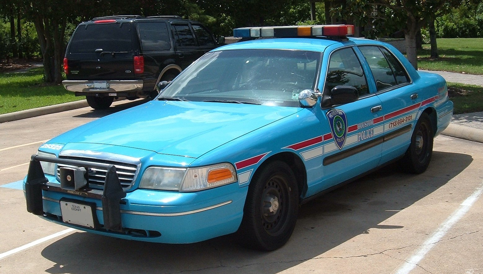 Houston Police Department cruiser.